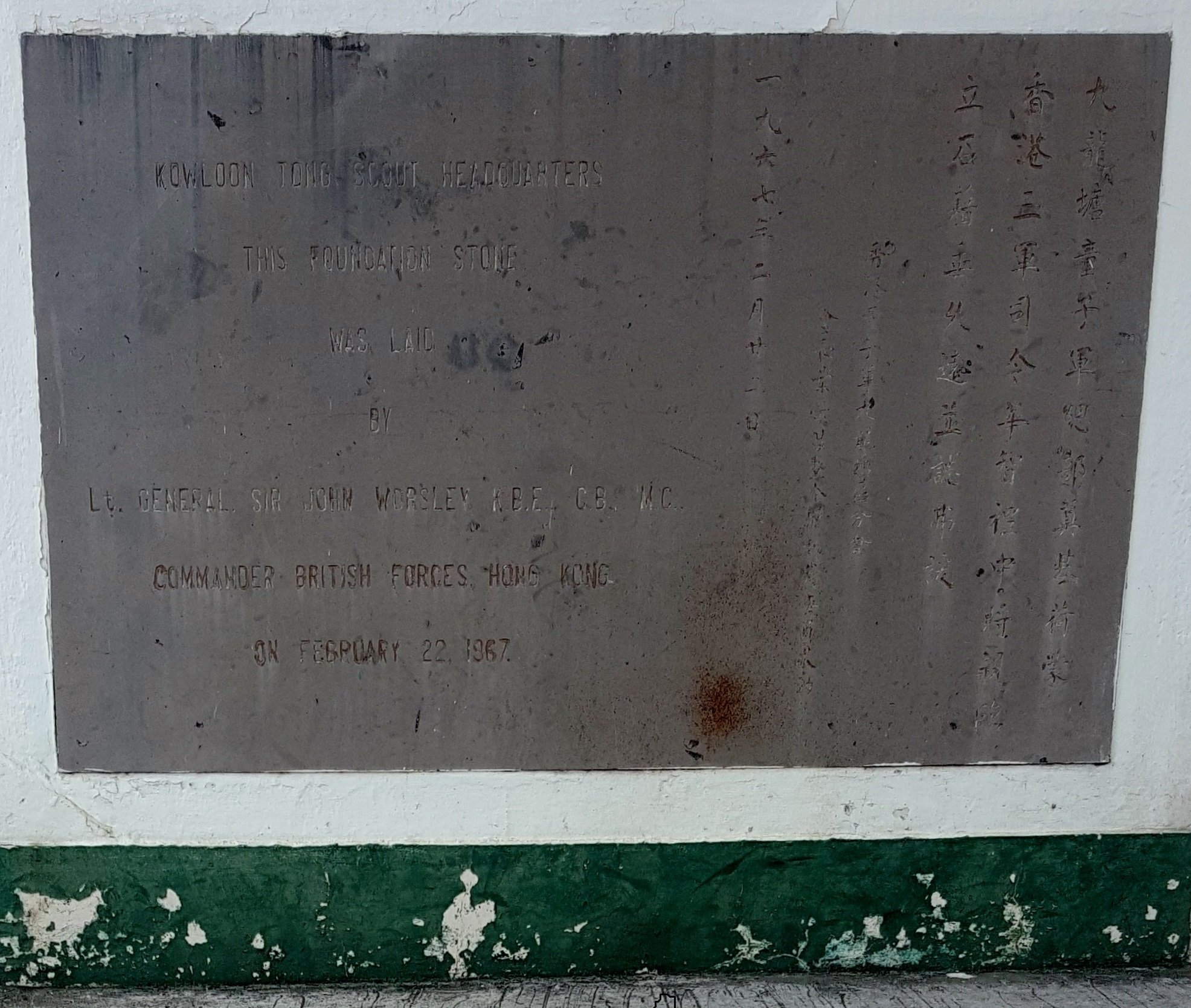 The foundation stone of Kowloon Tong Scout Headquarters, which was laid by Lieutenant-General Sir John Worsley, K.B.E., C.B., M.C., Commander British Forces, Hong Kong, on February 22, 1967. 中文（香港）: 九龍塘童子軍總部奠基石。1967年2月22日由駐港三軍司令陸軍中將華智禮爵士主持奠基。